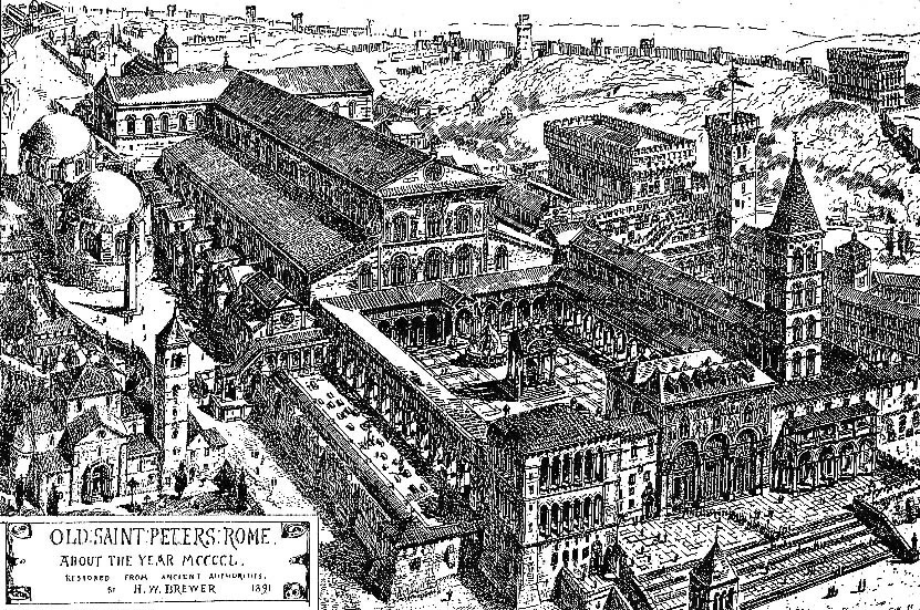 Drawing and graphic reconstruction of the Constantinian basilica over the grave of St. Peter in Rome. The figure shows, according to the caption, the building in 1450. In the right background, however, the Sistine Chapel can be seen, whose construction started in 1475 and finished in 1483. Since the foundation stone was laid for the new St. Peter's Cathedral in 1506, the drawing shows the state between 1483 and 1506. Drawing from H.W.Brewer, 1891